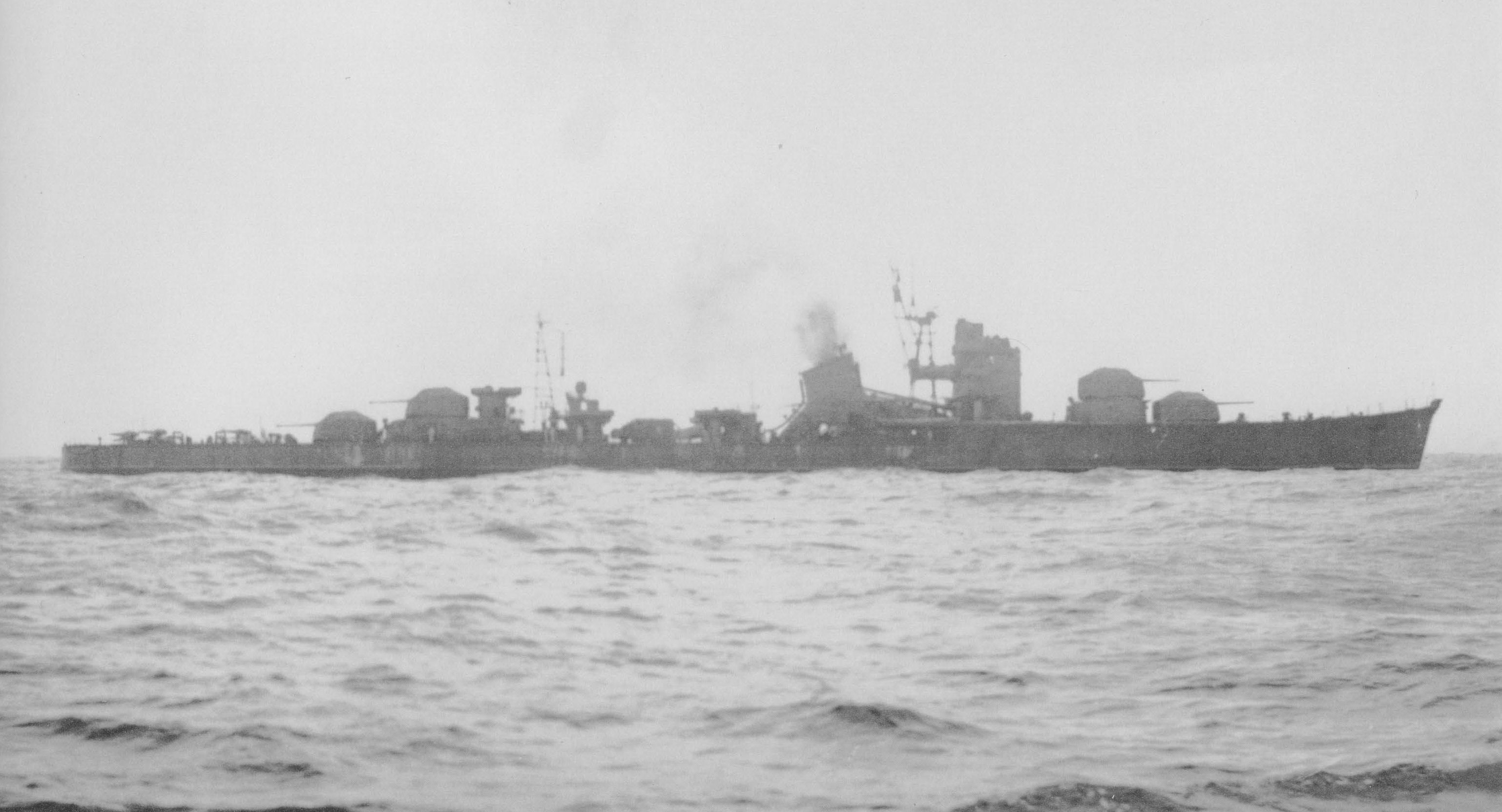 Imperial Japanese Navy destroyer Hanazuki